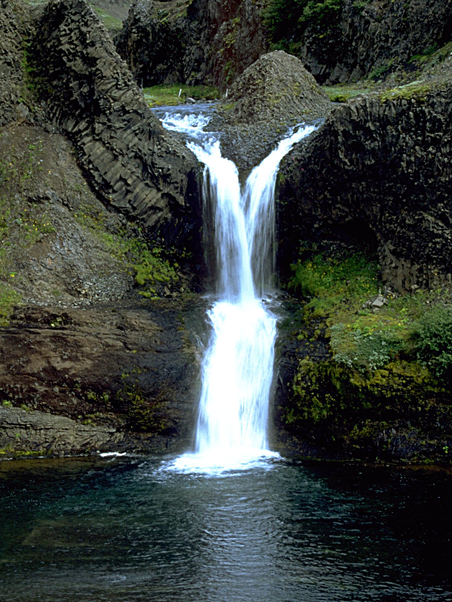 Gjárfoss Photo was taken using the following technique: Film: Fuji Velvia Lens: 4/70-210 Filter: none Body: Minolta Dynax 7 Support: Manfrotto 190B Image with Information in English Bild mit Informationen auf Deutsch